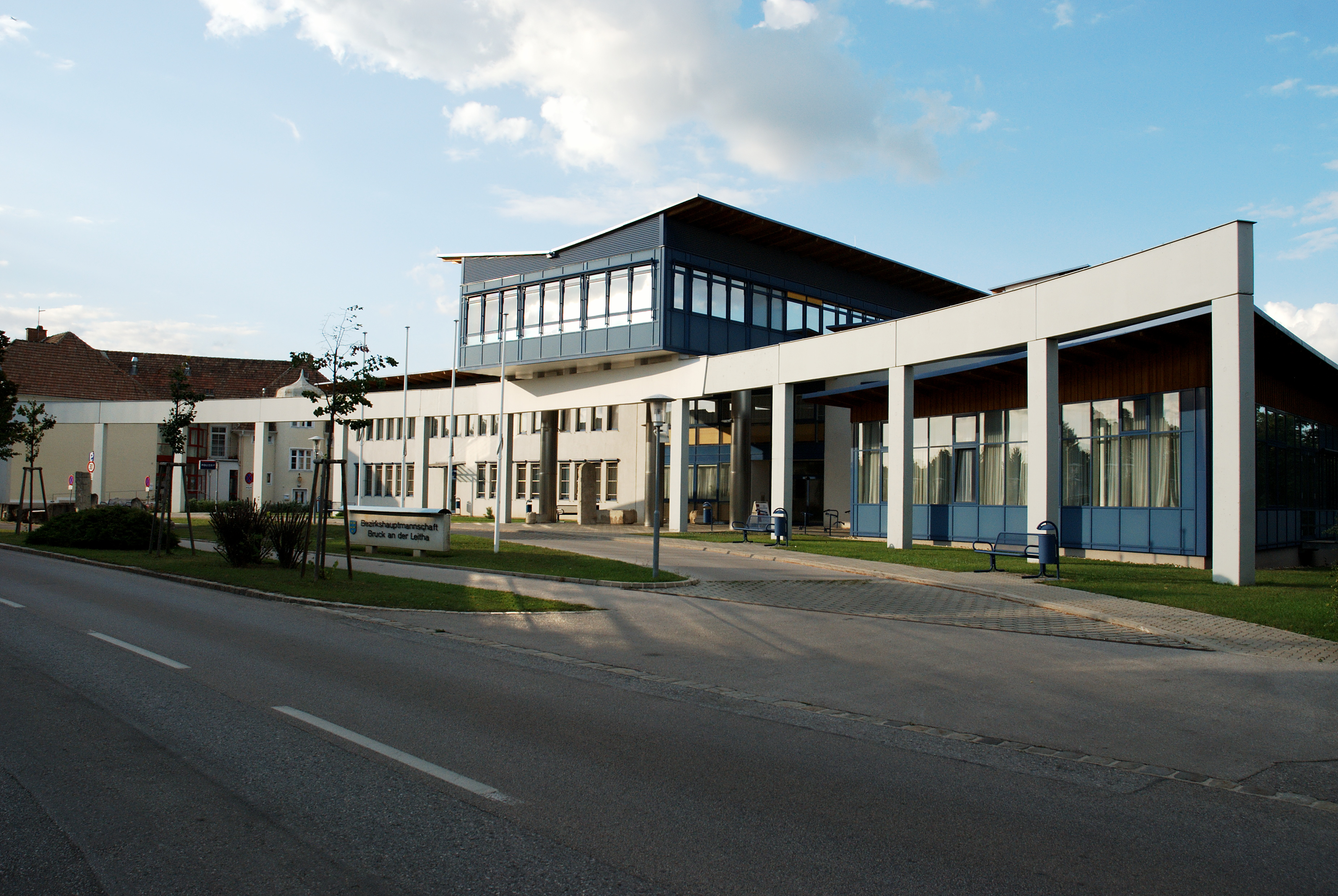 Bezirkshauptmannschaft (administrative office) of the district Bruck an der Leitha, Austria.